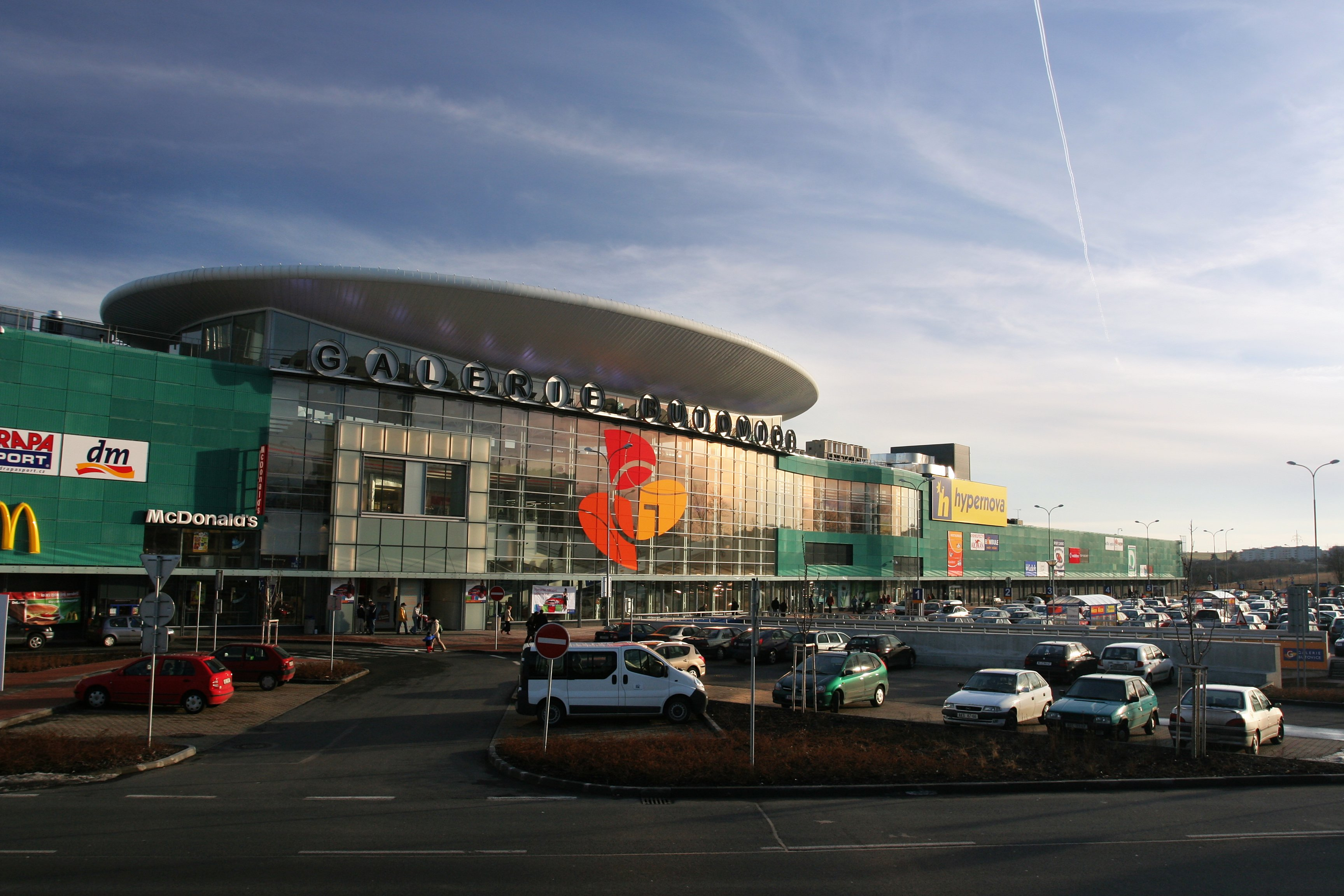 Galerie Butovice, a shopping center near Nové Butovice in Prague - OpenStreetMap(Info)